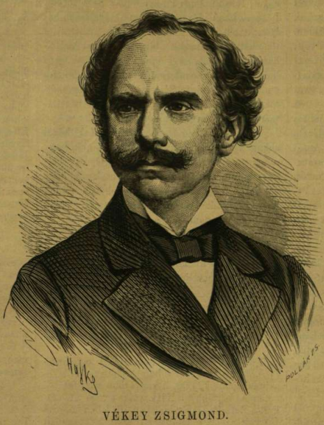 Portrait of Vékey Zsigmond